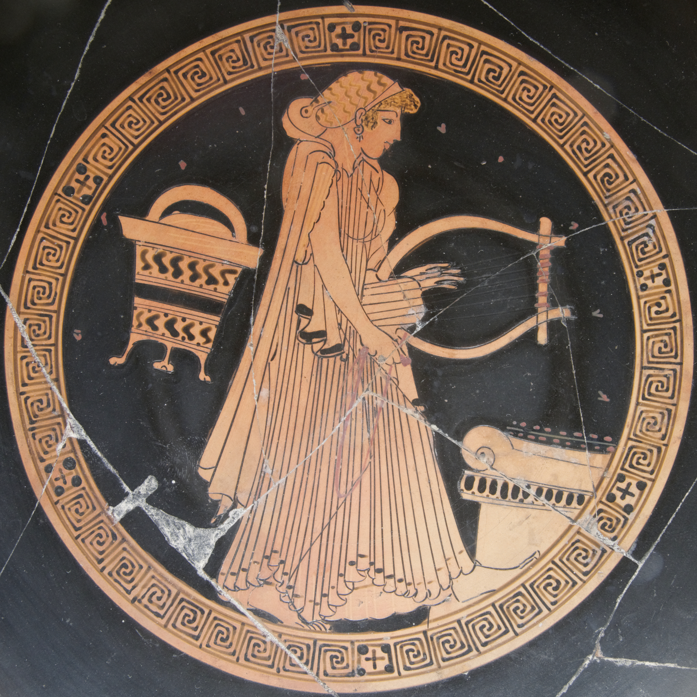 Woman with a lyre near an altar; a basket (?) on the left. Tondo of an Attic red-figure kylix, ca. 480 BC.